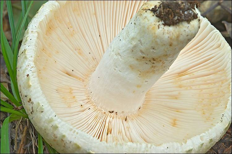 The gills and stipe of a fruit body of the basidiomycete fungus Russula virescens (Schaeff.) Fr.; specimen photographed in Bovec basin, East Julian Alps, Posočje, Slovenia.